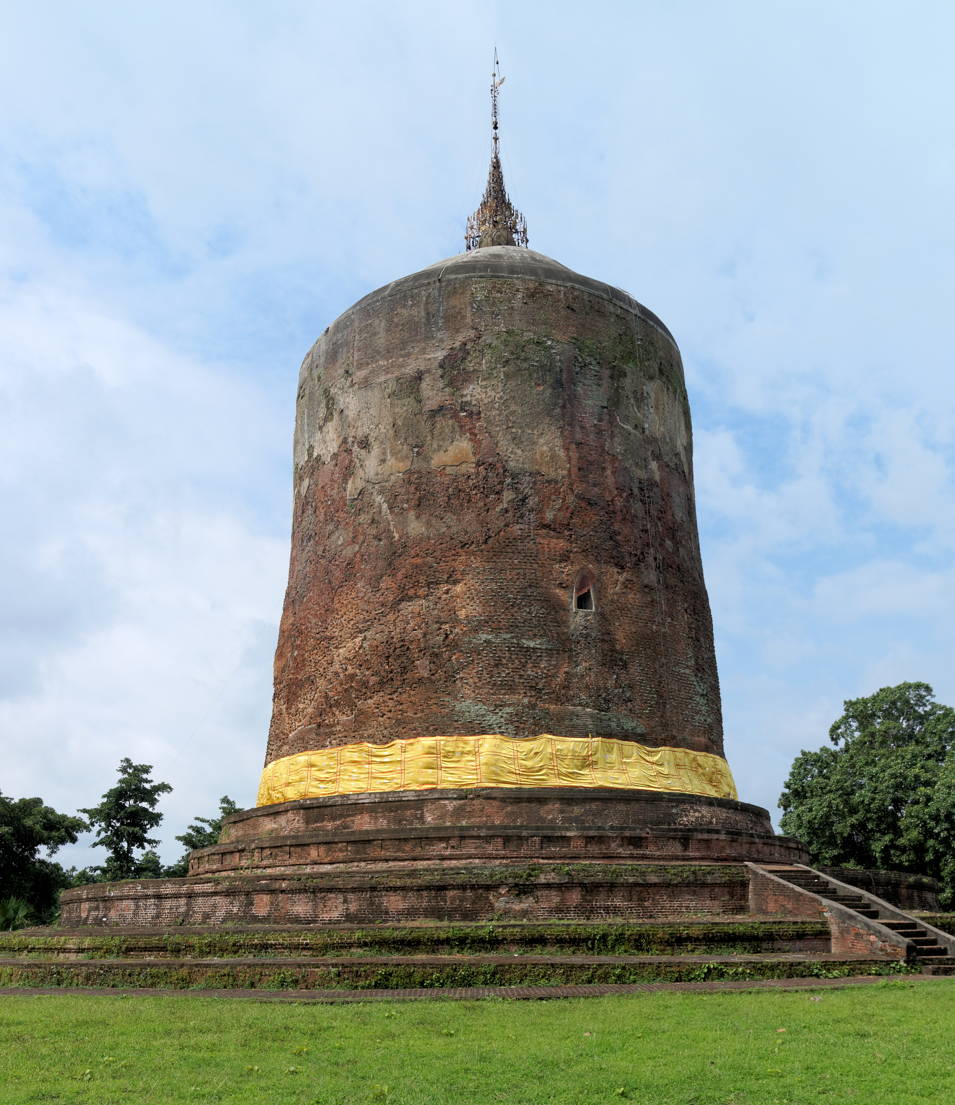 Bawbawgyi Pogoda at Sri Ksetra archaeological site near Pyay in Myanmar